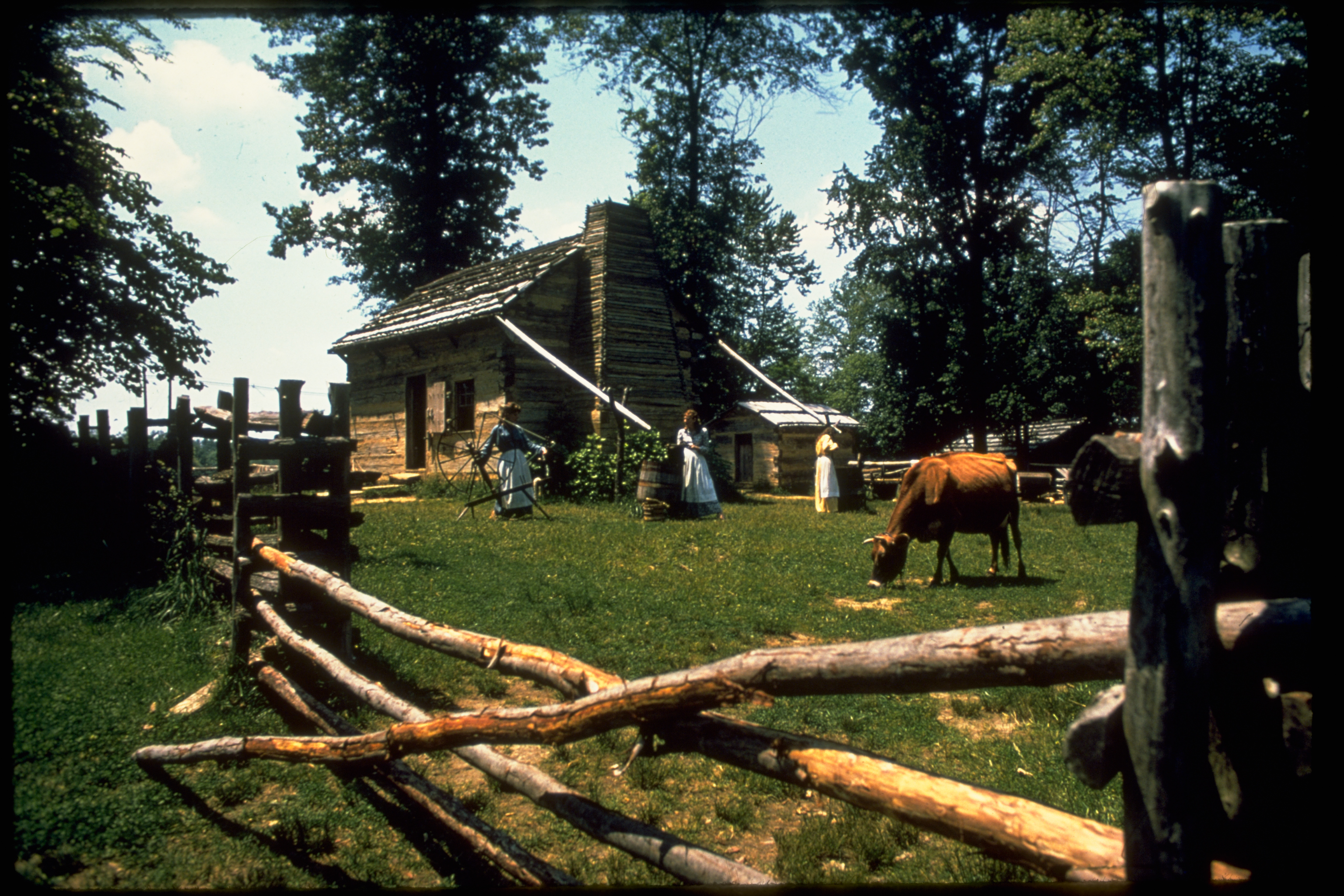 Abraham Lincoln lived on this southern Indiana farm from 1816 to 1830. During that time, he grew from a 7-year-old bot to a 21-year-old man. His mother, Nancy Hanks Lincoln, is buried here.